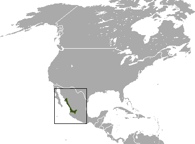 Large-eared Gray Shrew (Notiosorex evotis) range